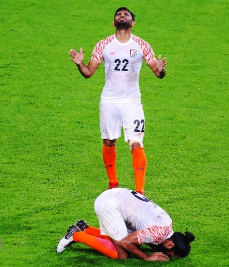 Anas Edathodika after winning group match against Thailand at 2019 AFC Asia Cup, with team mate Sandesh Jhingan.